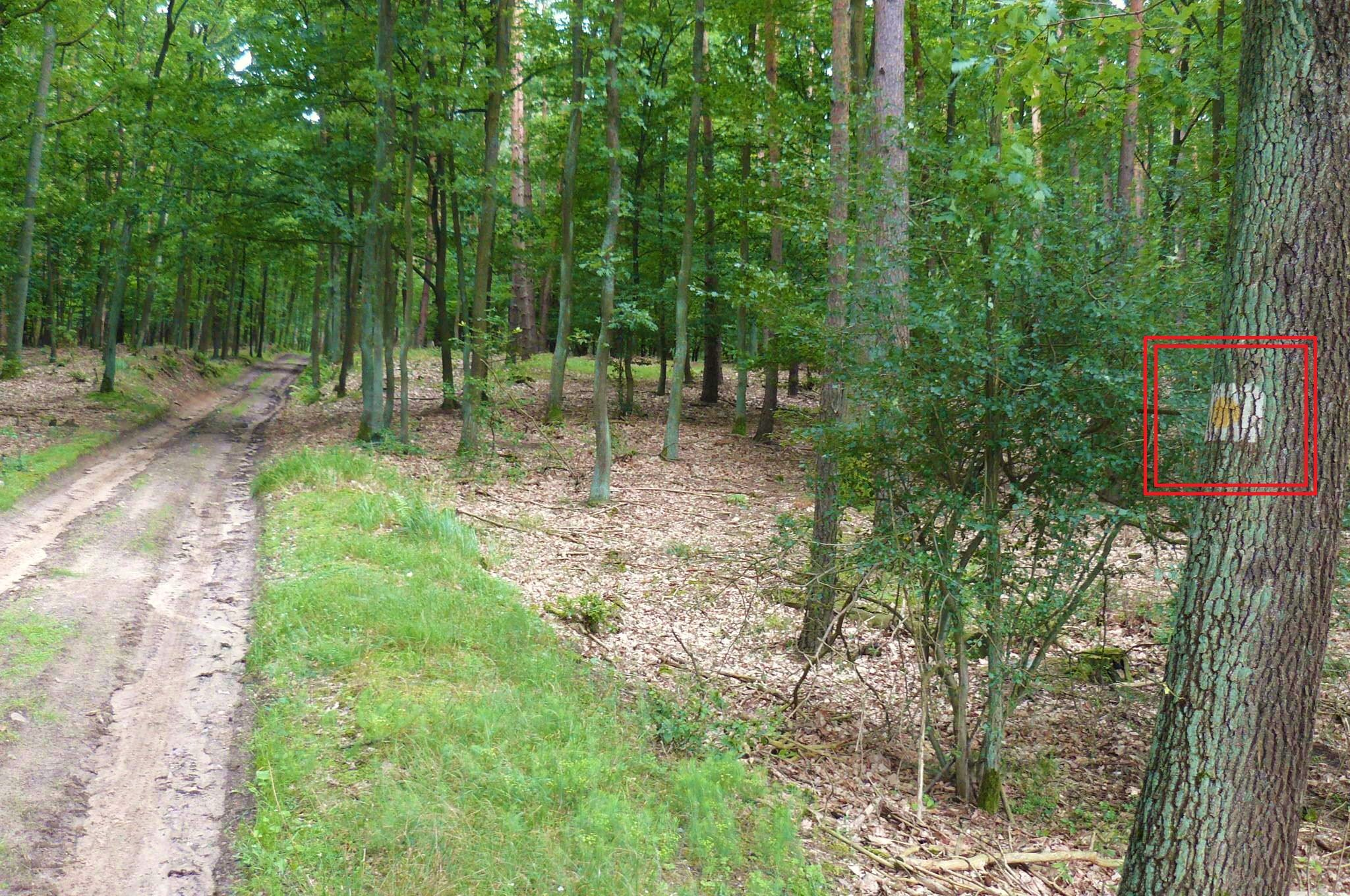 Horse trail "Wilczy Szlak" in Puszcza Zielonka.